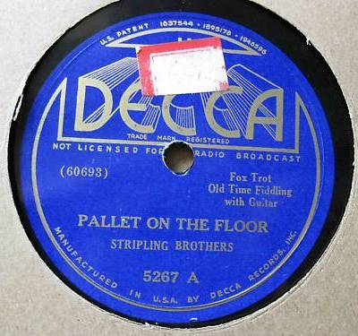 Pallet on the Floor by the Stripling Brothers, Decca 1936.